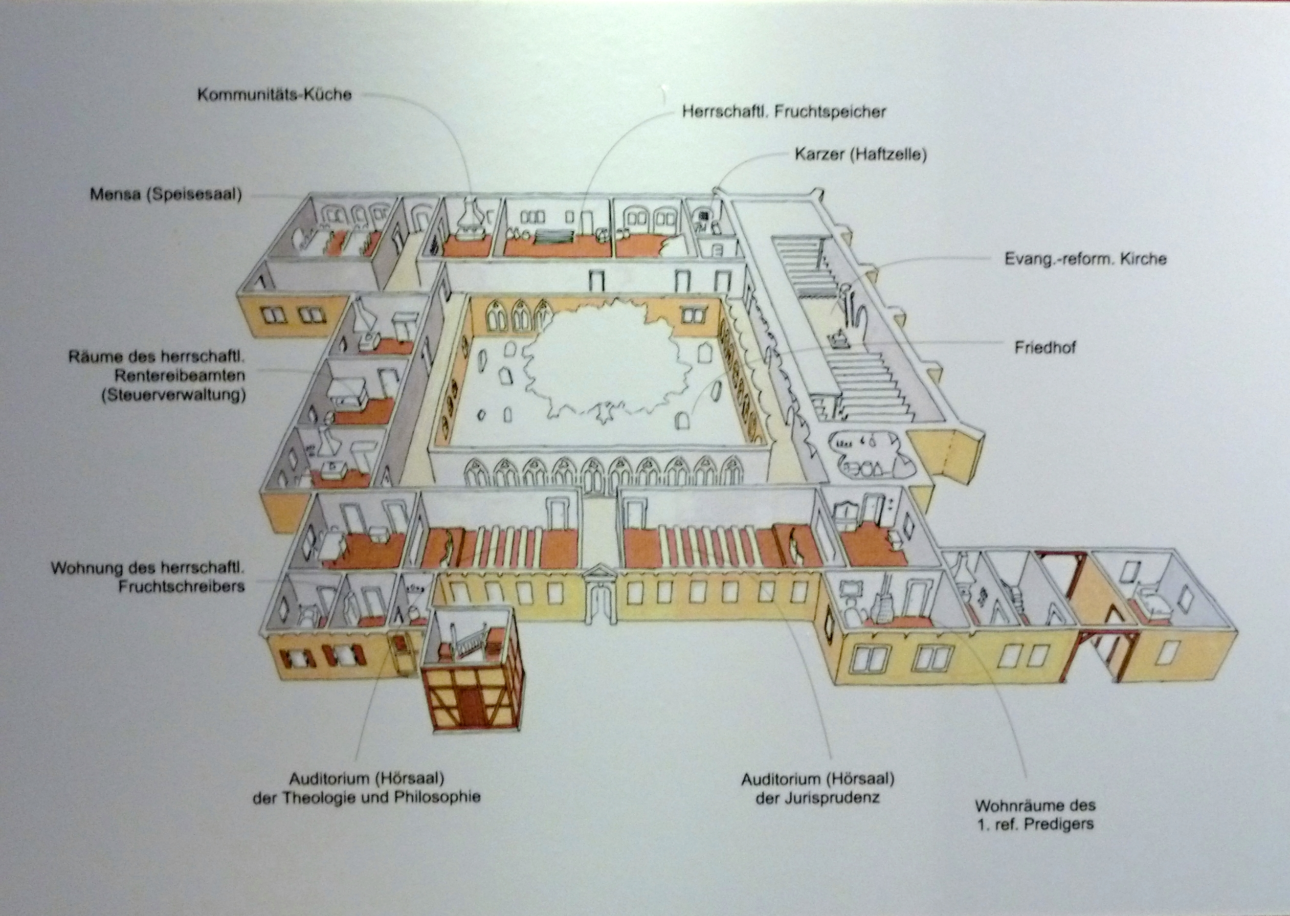 University building and functional use (groundfloor)